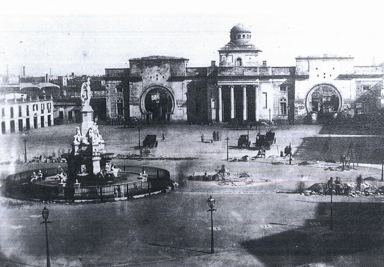 Portal de Mar, at Barcelona, present Pla de Palau: the fountain exists today, but not the building behind, demolished in 1888